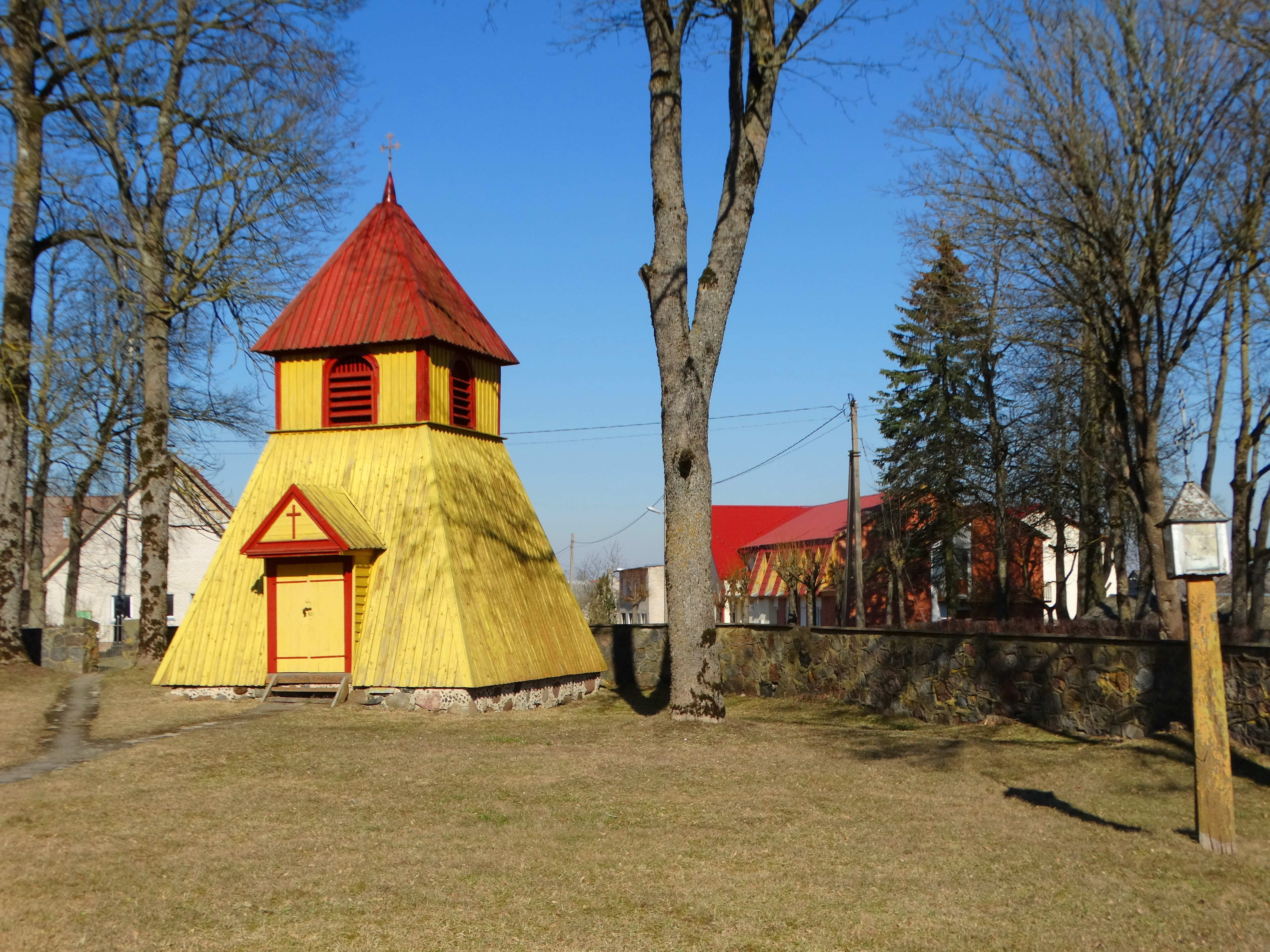 Roman Catholic Church of St. John the Baptist, Vaiguva, Kelmė district, Lithuania